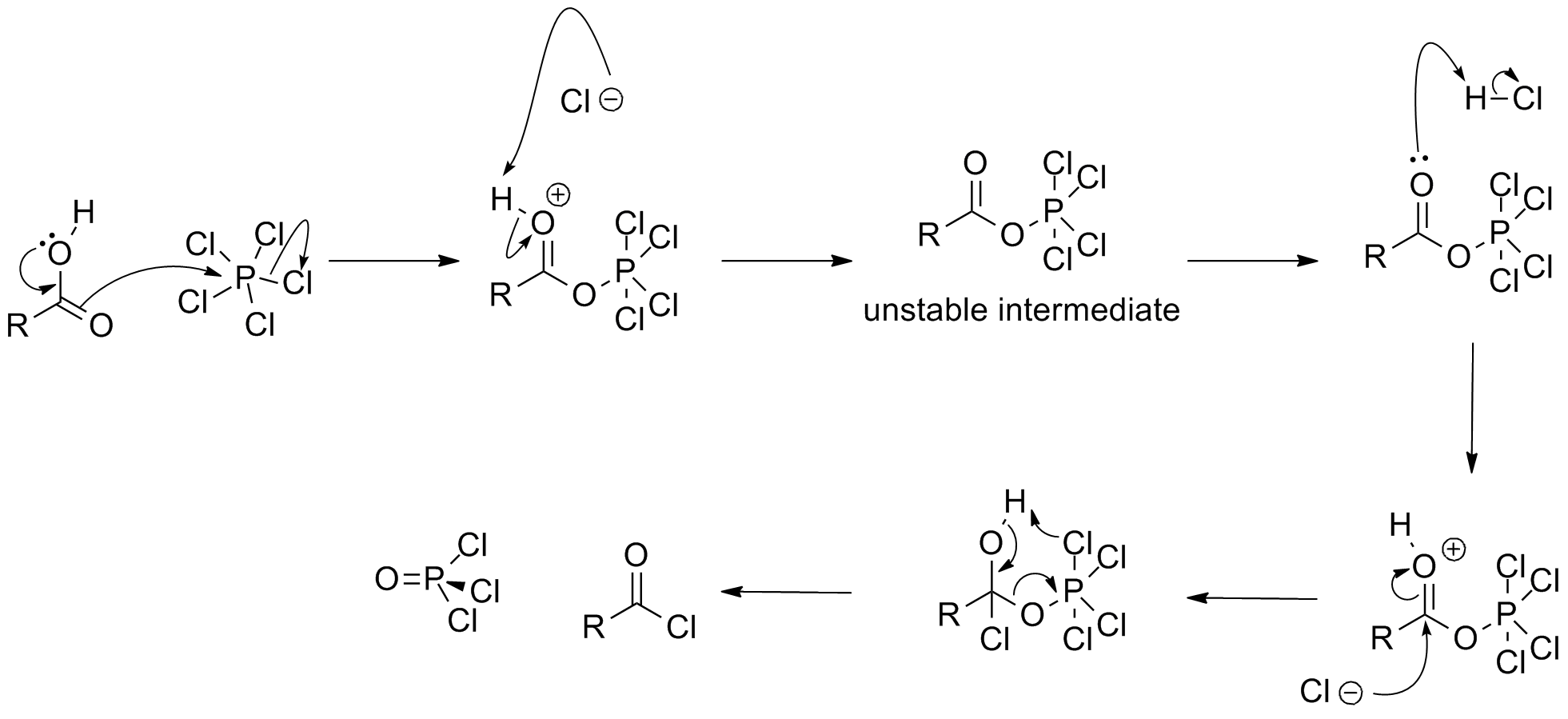 Mechanism of conversion of carboxylic acid to acid chloride